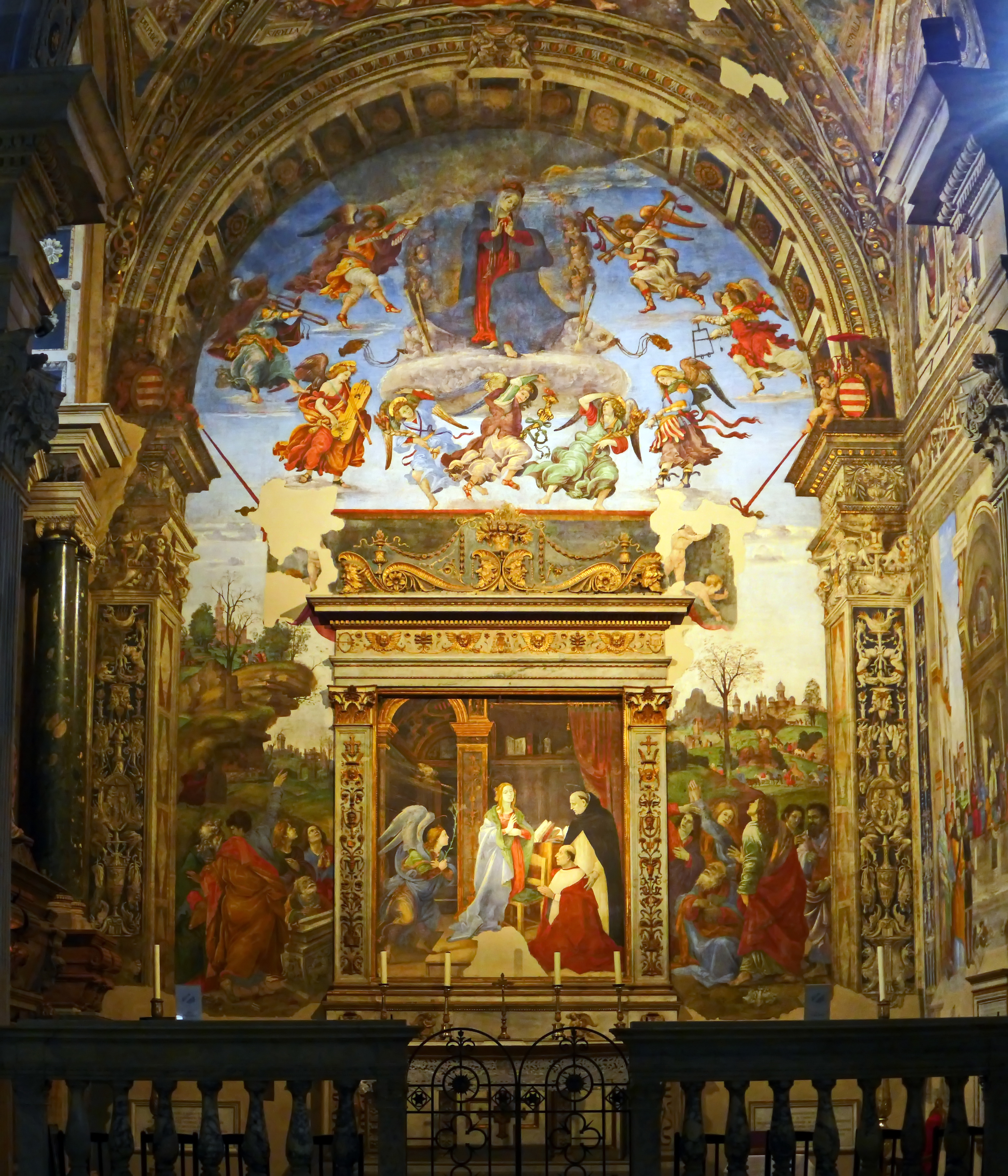 Santa Maria sopra Minerva (Rome), Cappella Carafa, Filippino Lippi